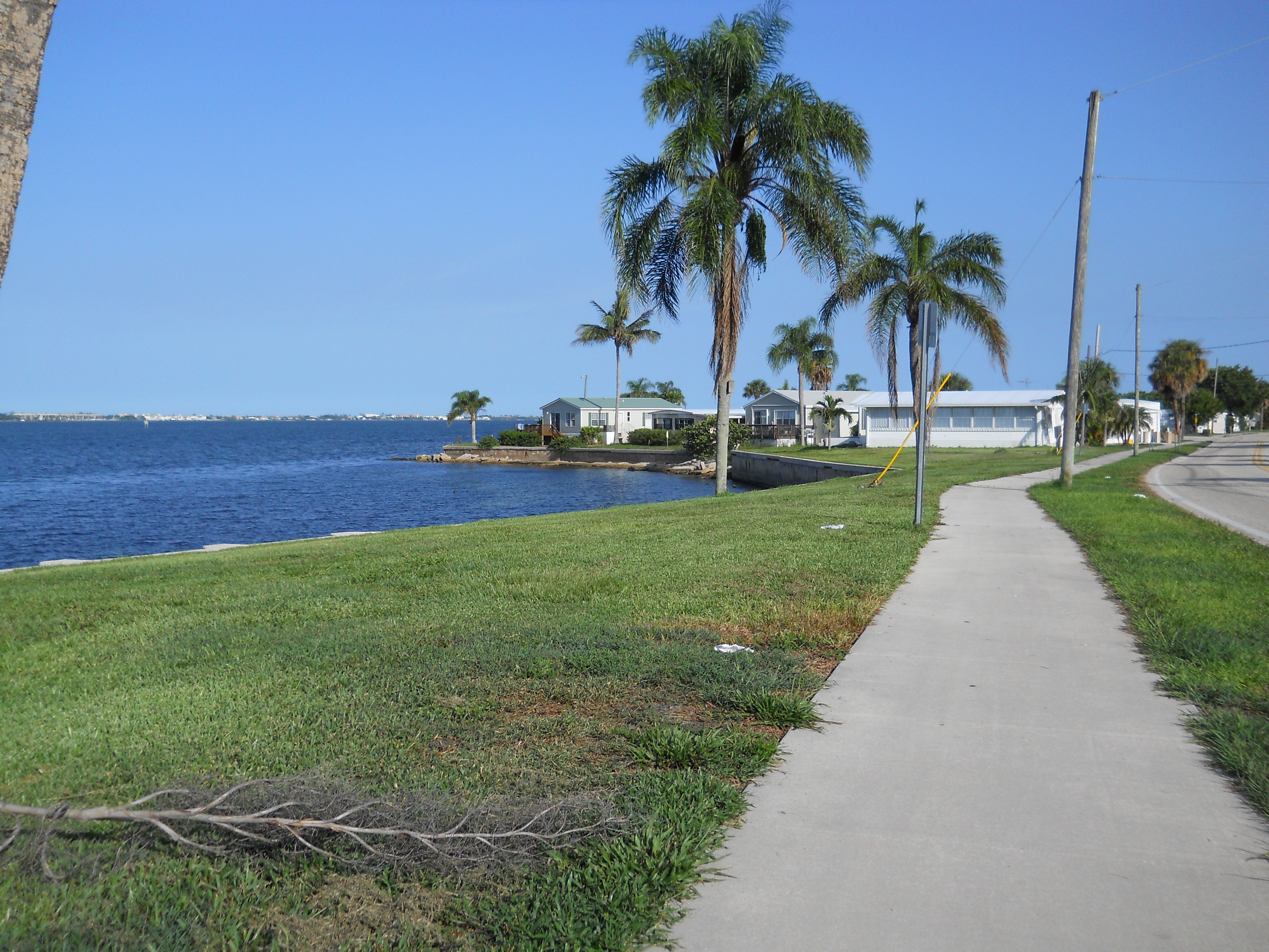 Ocean Breeze Park, Florida, a view of the riverside portion of the town from the north